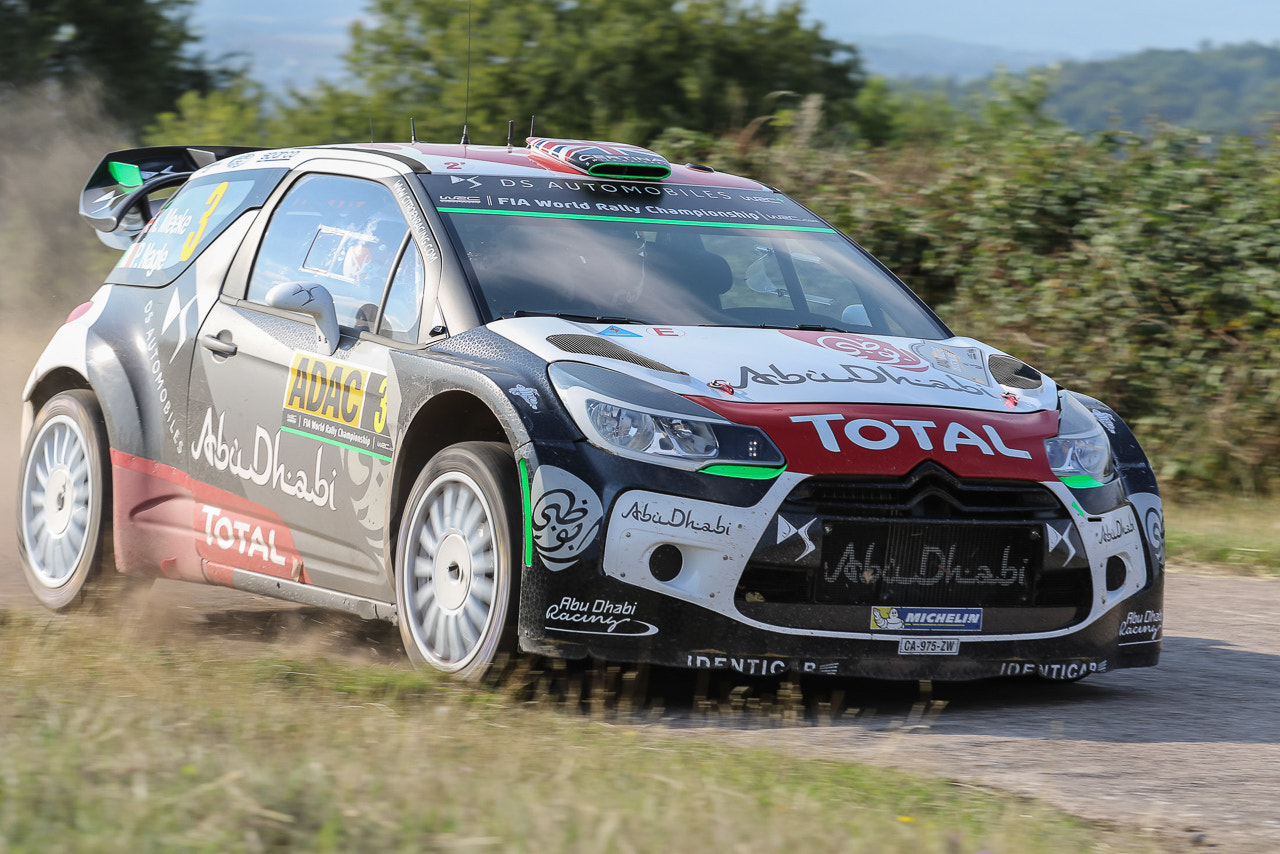 500px provided description: Adac Rallye Deutschland 2015 [#automotive ,#car ,#cars ,#fast ,#sport ,#race ,#germany ,#racing ,#sports ,#action ,#rally ,#deutschland ,#rallye ,#motorsport ,#rallye deutschland ,#wrc 2015]